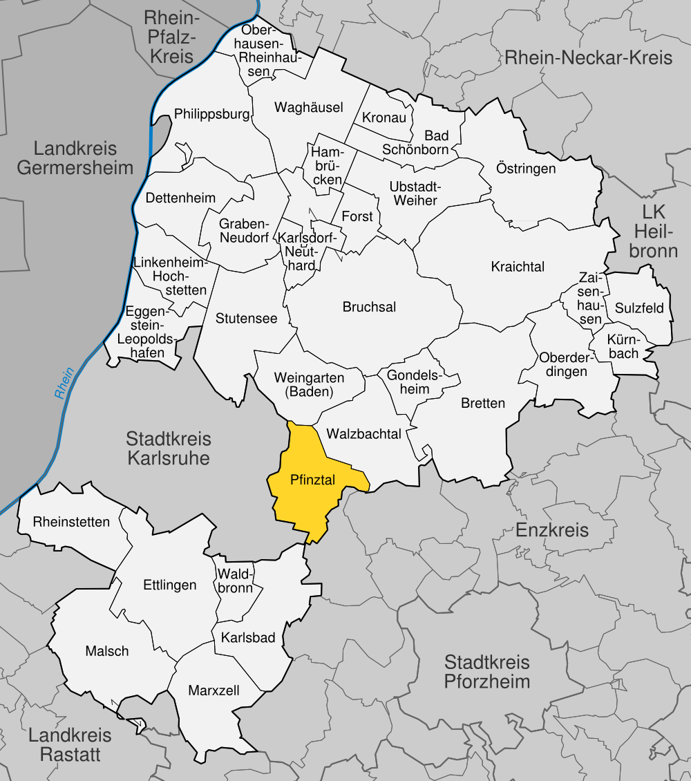 position of Pfinztal within distict of Karlsruhe, Baden-Württemberg, Germany